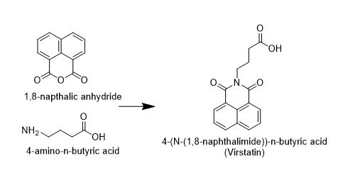 Reaction scheme used by original discoverers of the molecule